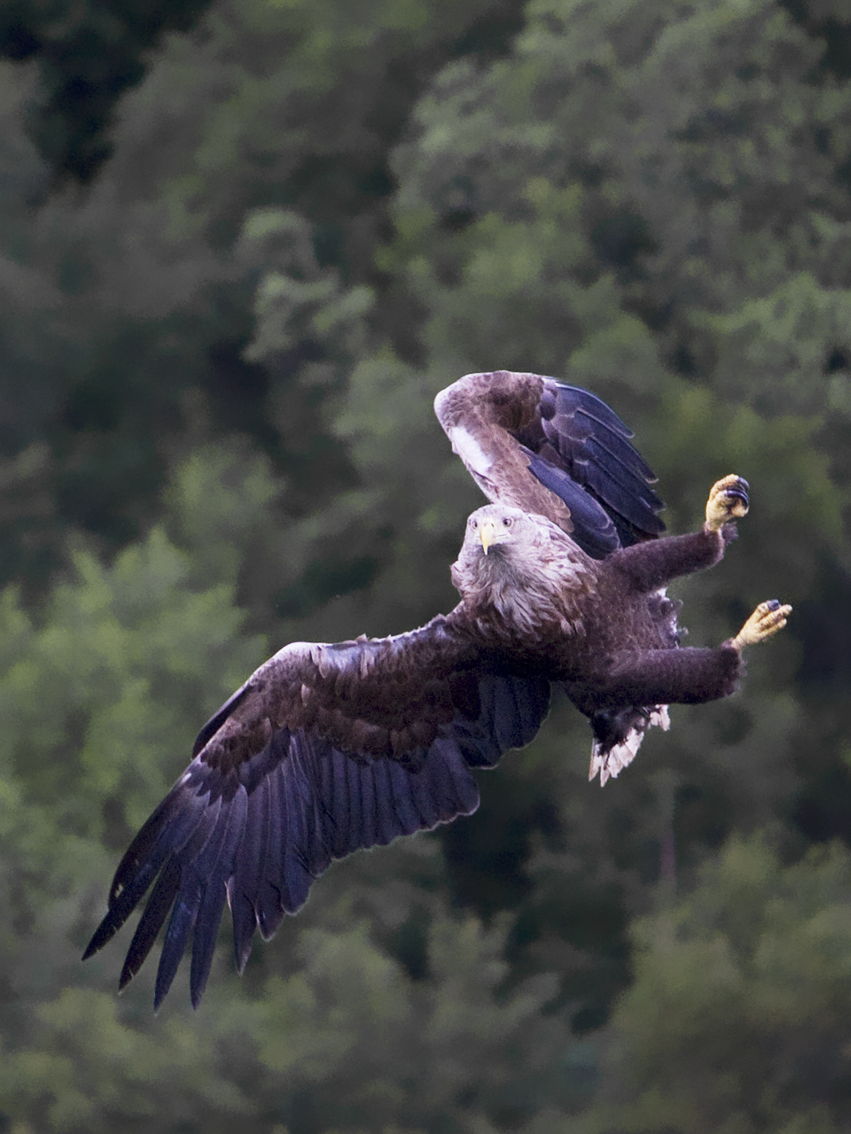 A White-tailed Eagle flying over Loch Portree, Isle of Skye, Scotland.